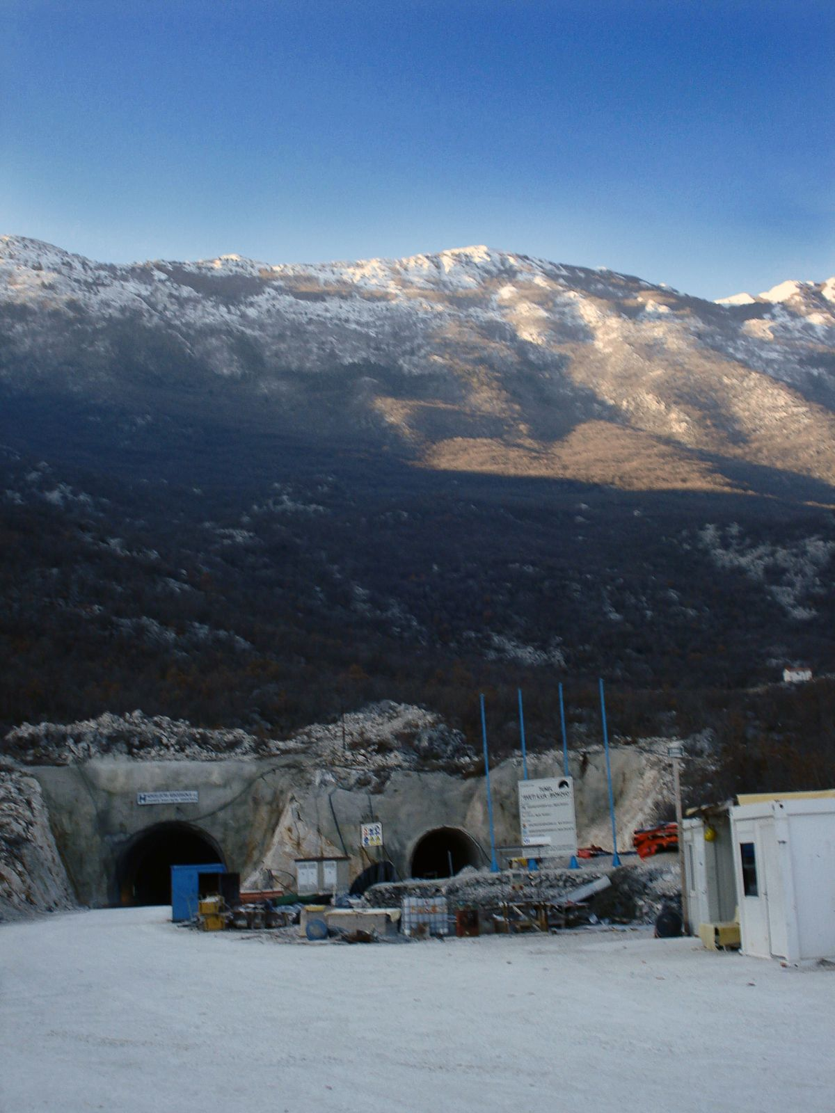 Northern entrance of the Sveti Ilija Tunnel near Rastovac, Zagvozd, Croatia.